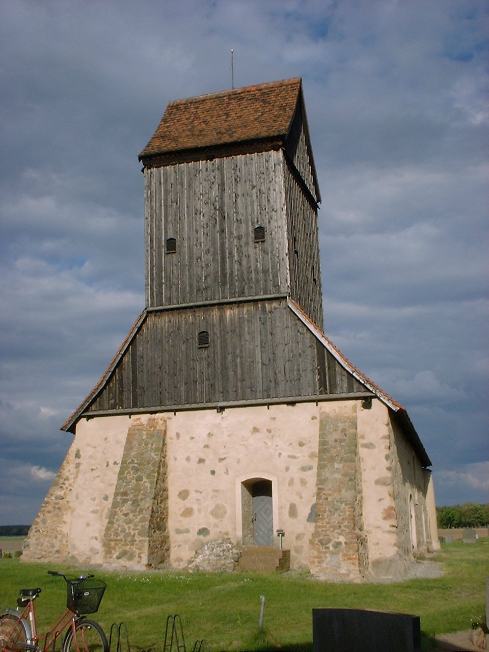 Church in Beelitz-Kanin in Brandenburg, Germany